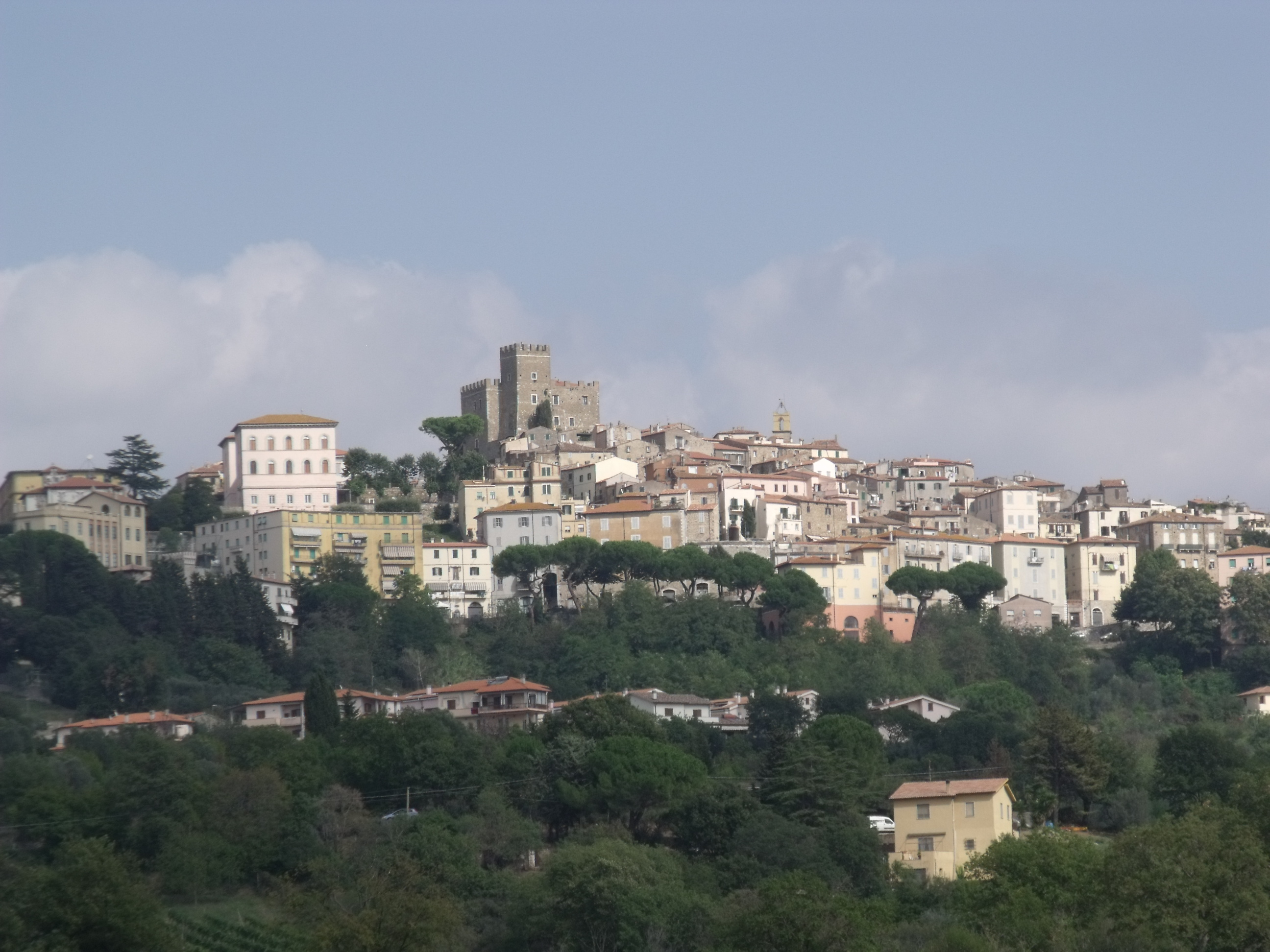 Panorama of Manciano, Maremma, Province of Grosseto, Tuscany, Italy